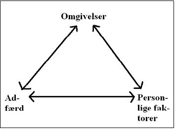 Banduras triadiske reciprokalitet